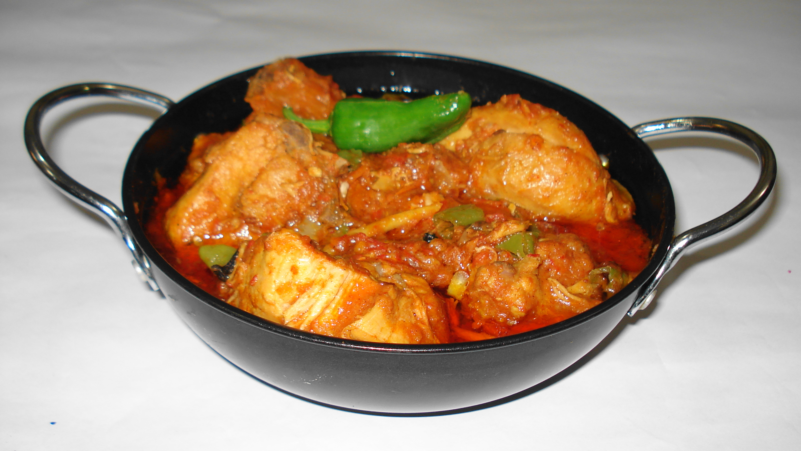 Murghi Karahi